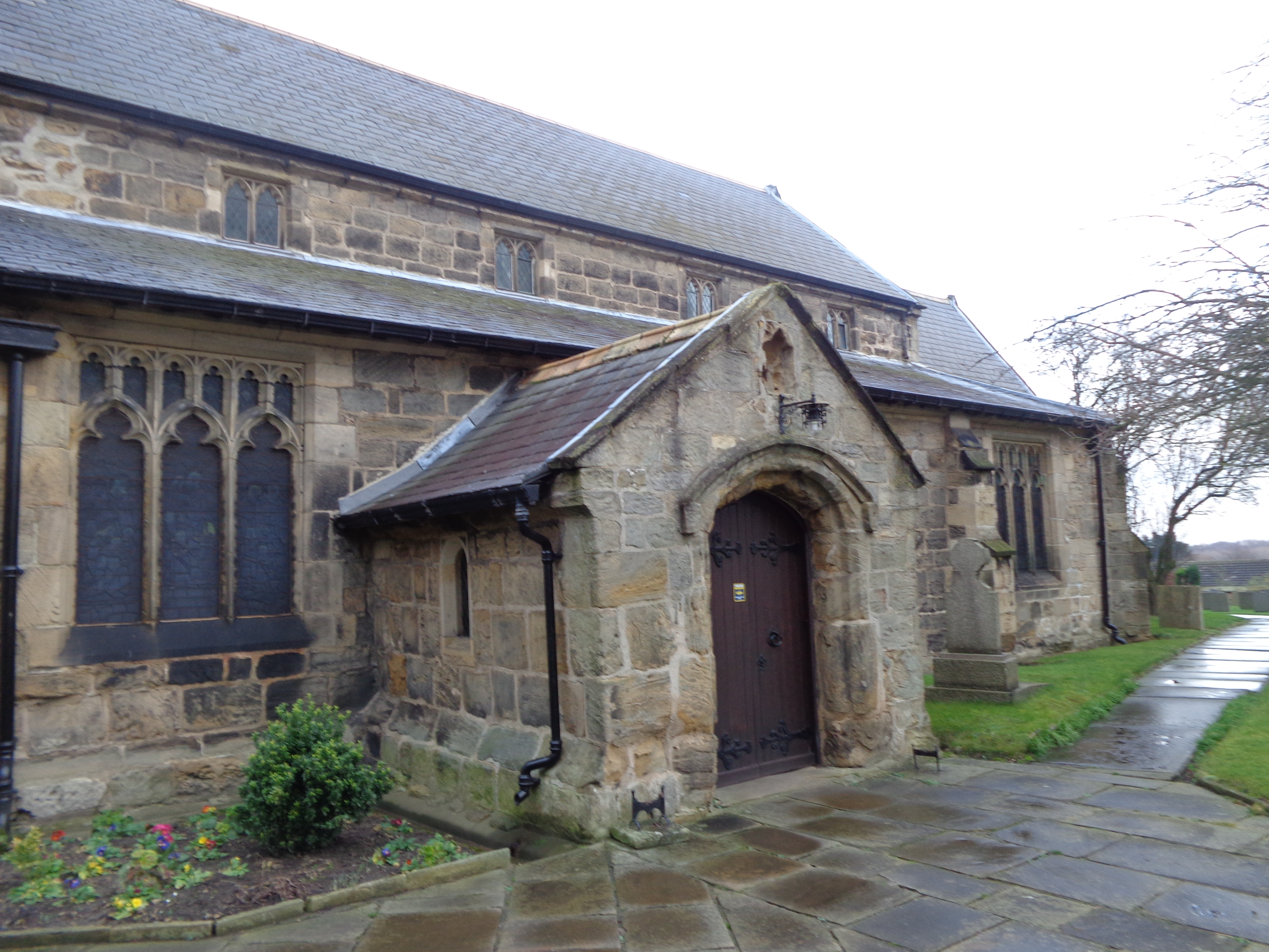 All Saints' Parish Church, Barwick-in-Elmet, Leeds, West Yorkshire. Taken on the afternoon of Saturday the 18th of January 2014.